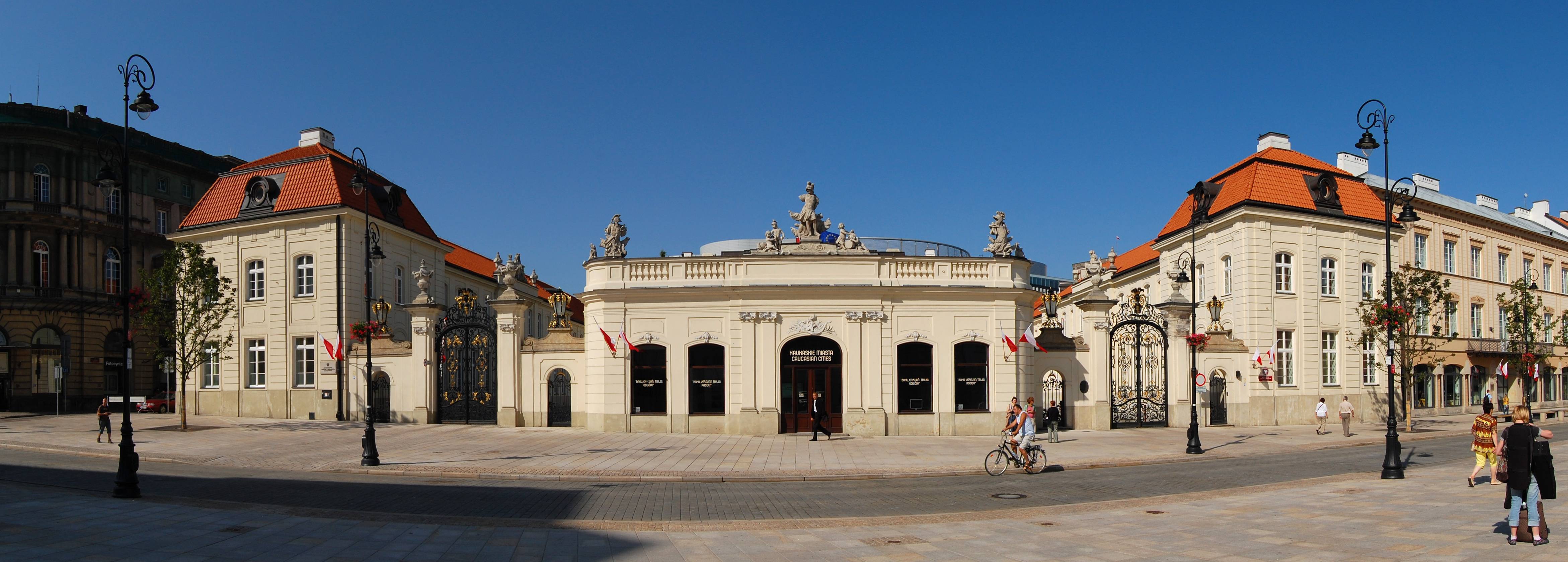 Potockich Palace in Warsaw, Poland.